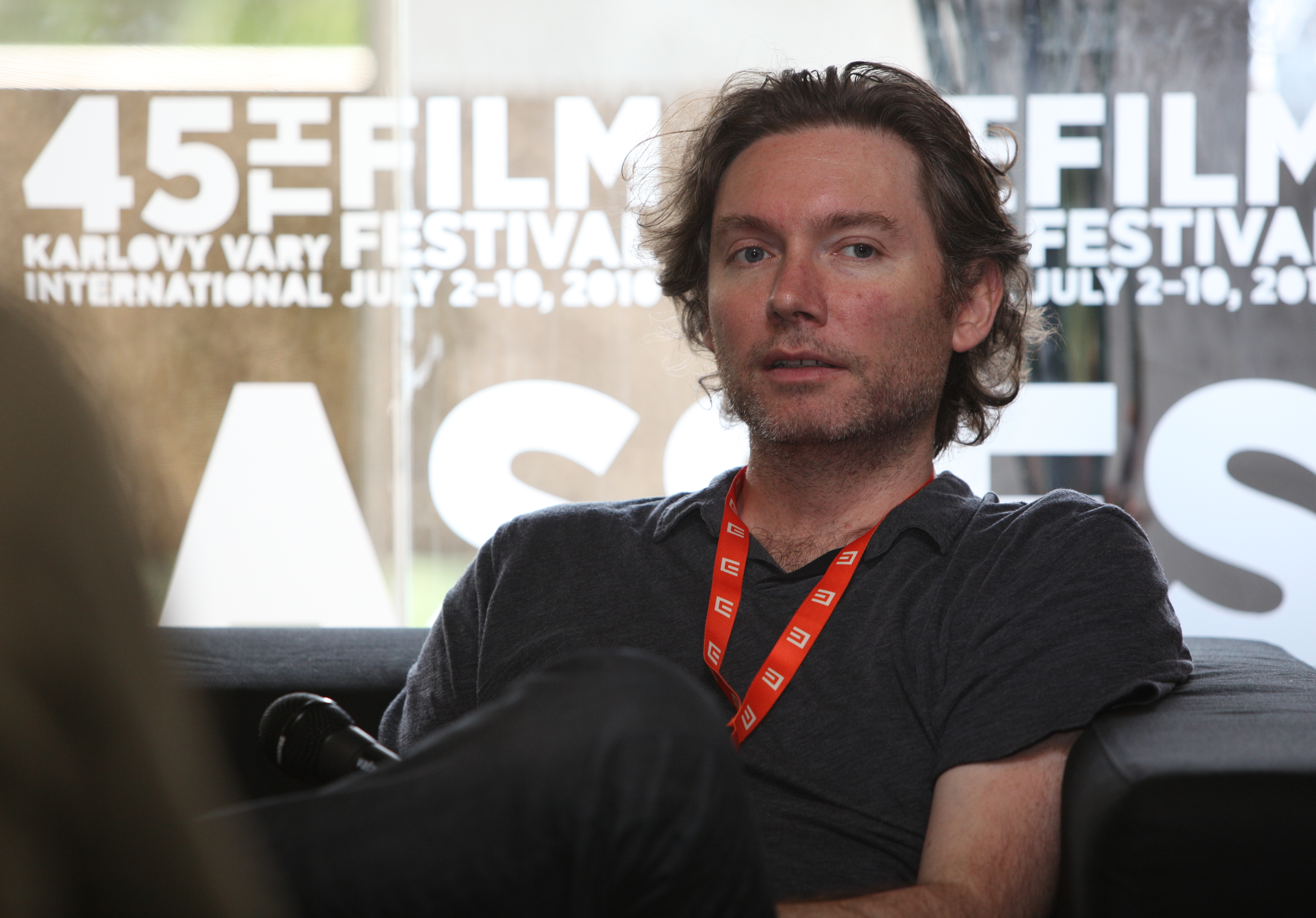 Scottish film director Kevin Macdonald at 2010 Karlovy Vary International Film Festival